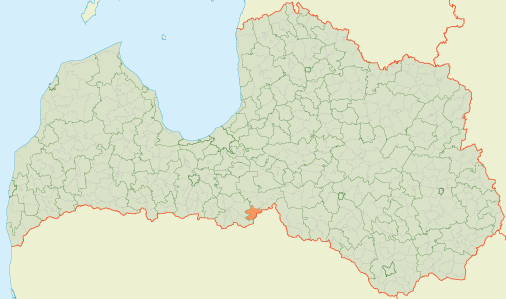 Location of Skaistkalne Parish in Latvia